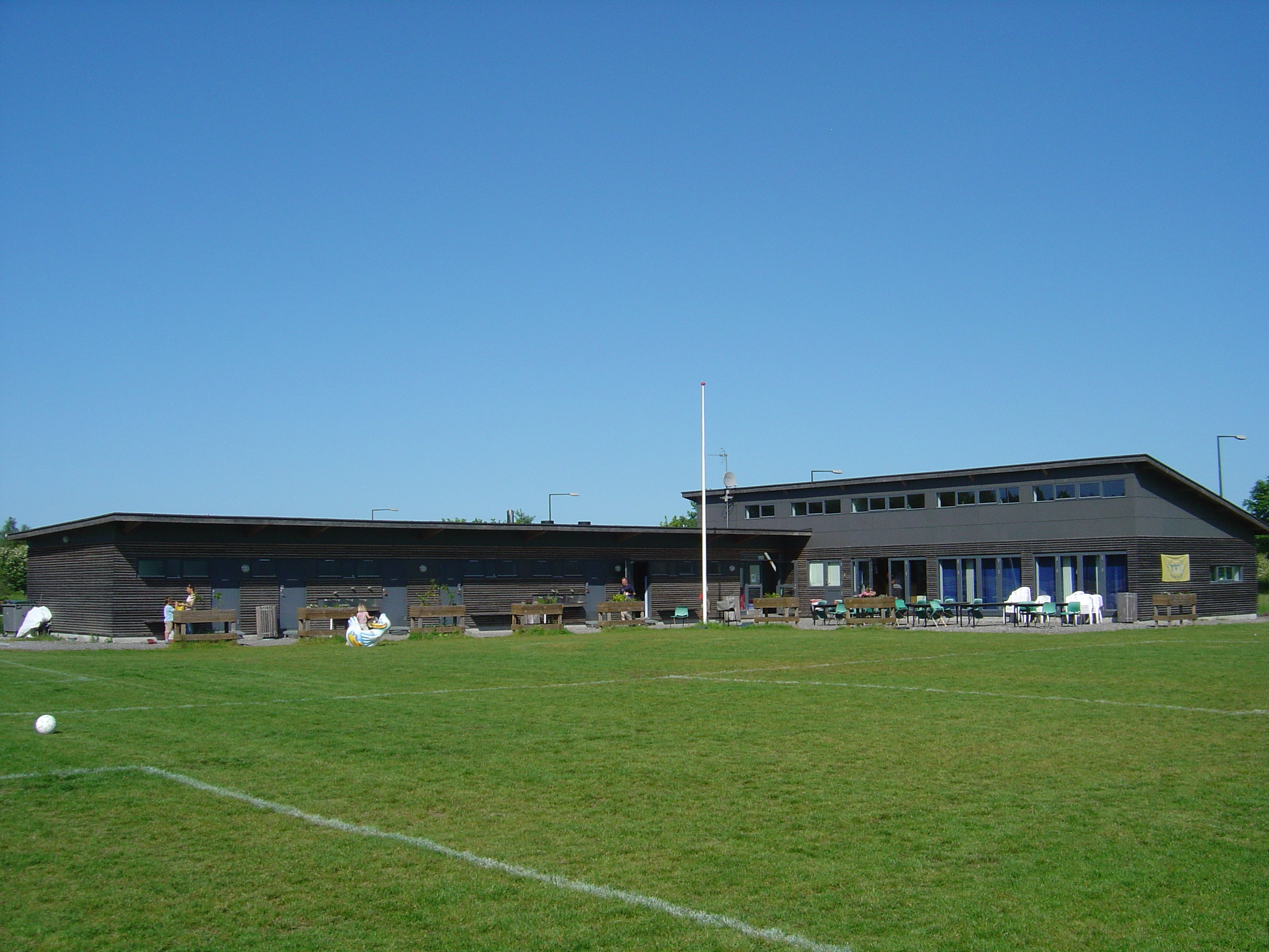 Boldklubben Hekla - their club house next to Amager Fælled, Amager, Copenhagen. Seen from the southwest side, on Hekla Park.